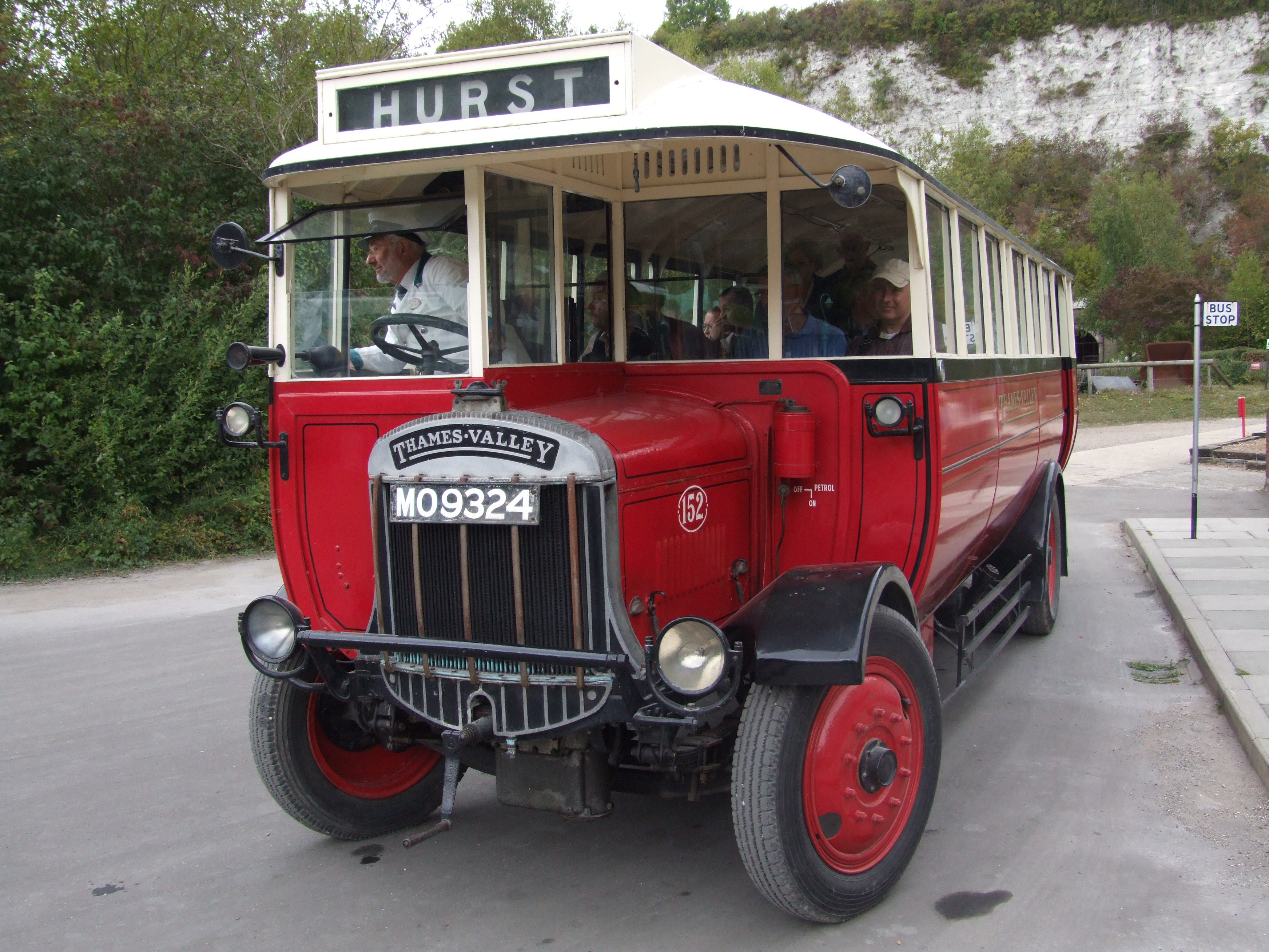 Thames Valley Traction bus 152, a Tilling-Stevens B9A with Brush bodywork, at Amberley Museum and Heritage Centre in West Sussex